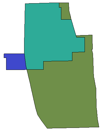 Chicago's 50th ward in 1923 and 2019. Dark green is 1923, blue is 2019, and aquamarine is the overlap.